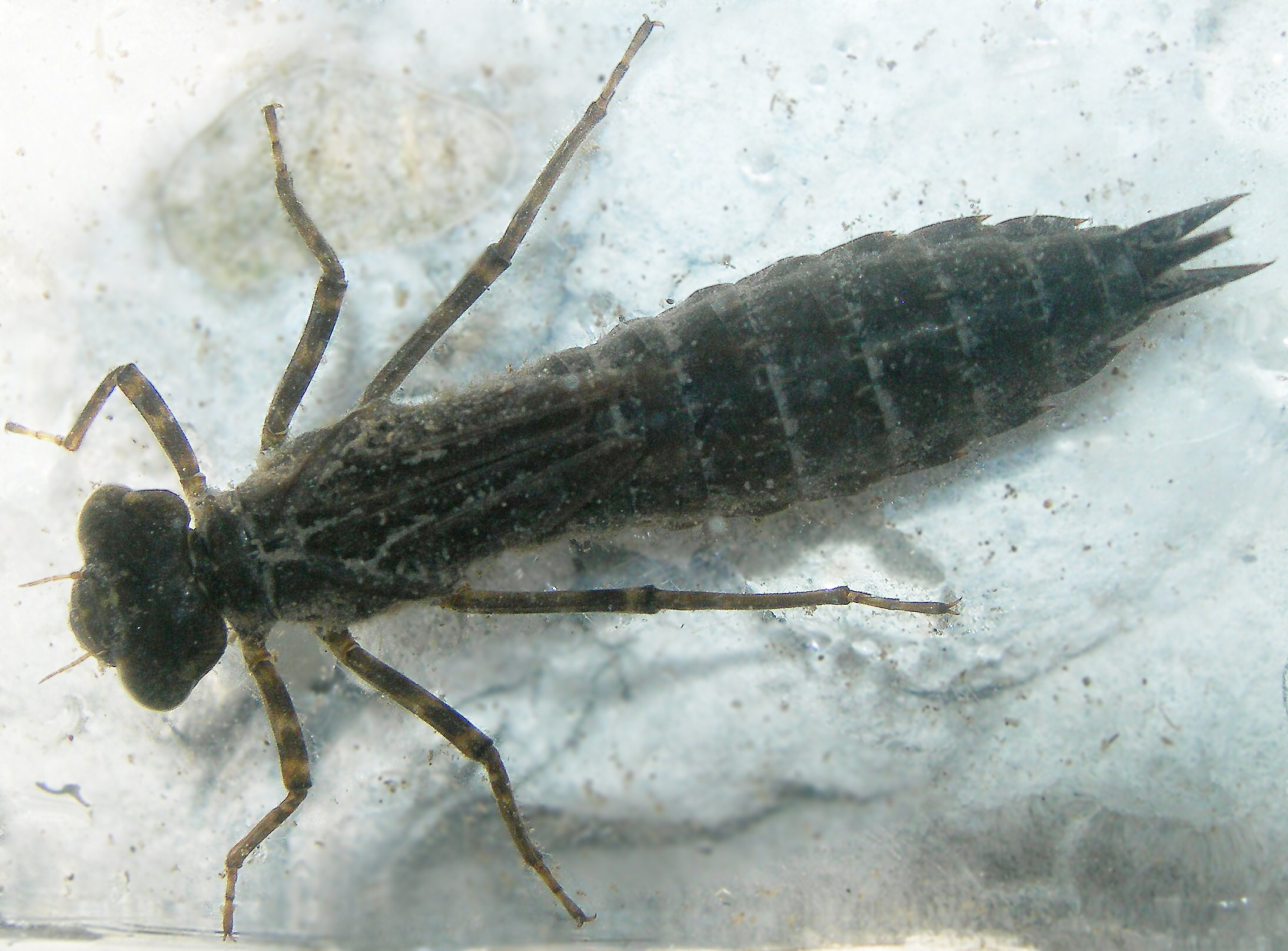 Emperor Dragonfly larva (Anax imperator), near the Fier, France